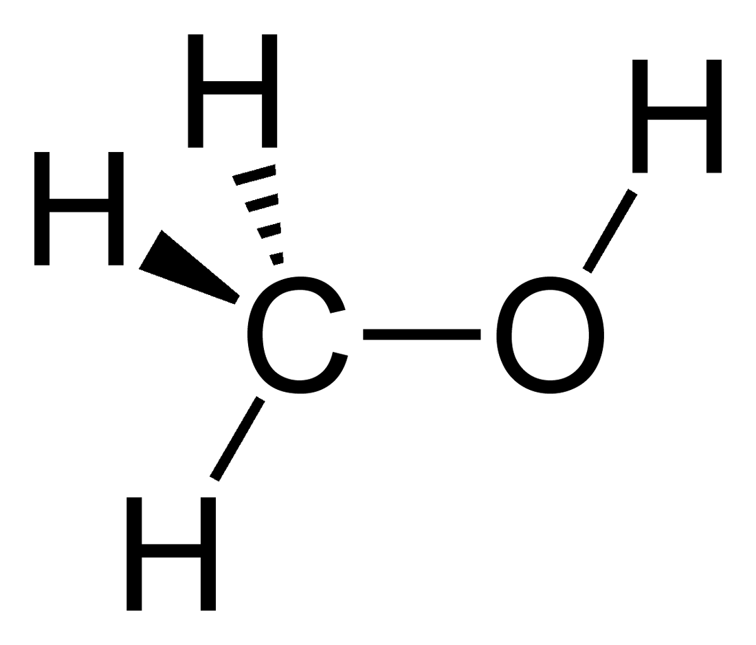 Structural formula of the methanol molecule, CH4O.